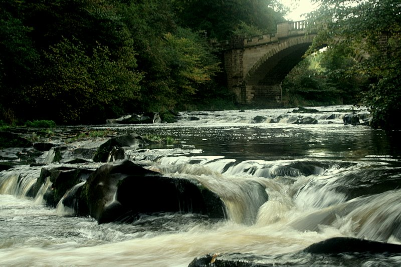 The River Almond in Almondell and Calderwood Country park with the Naismith Bridge. Taken by Mark Phillips Summary The River Almond in Almondell and Calderwood Country park with the Naismith Bridge. Taken by Mark Phillips